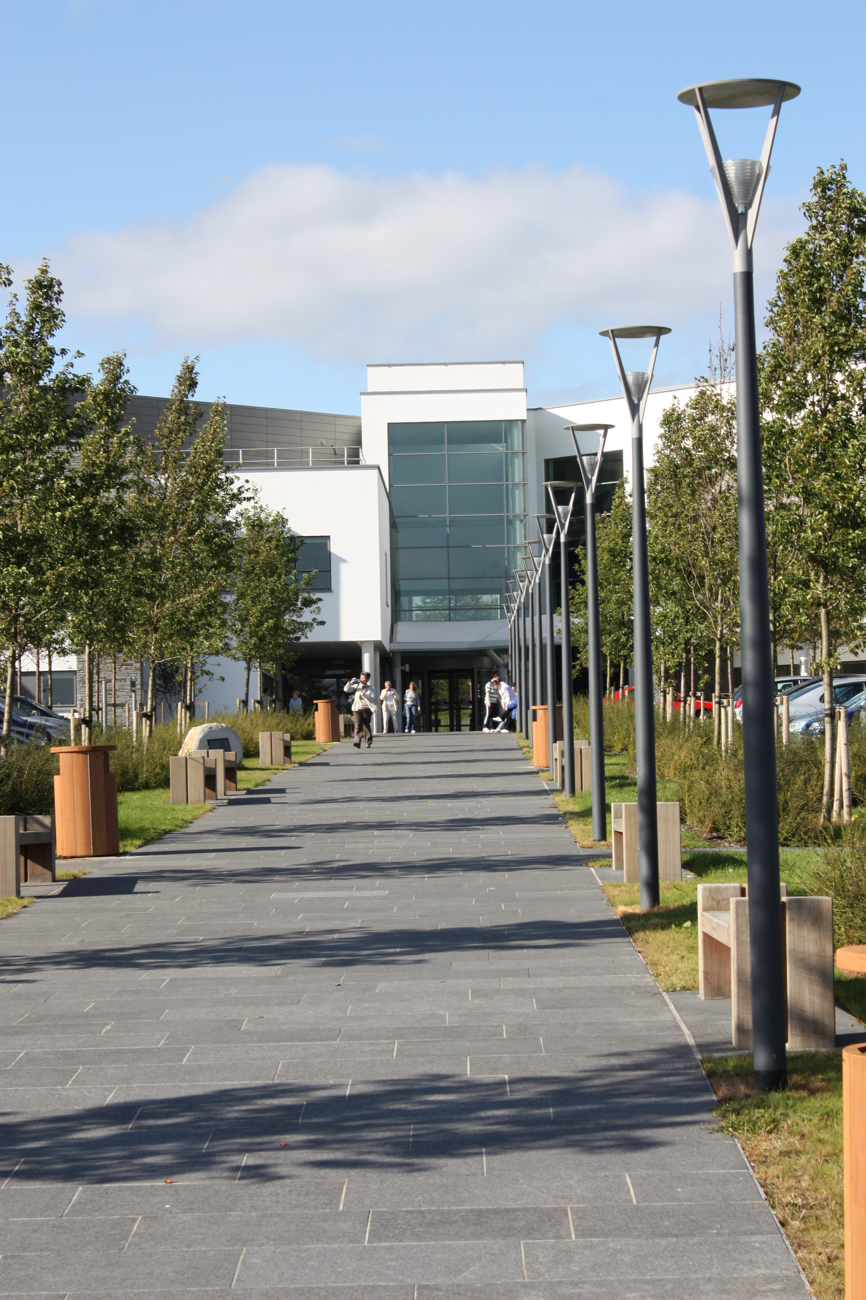 Downe Hospital, Struell Wells Road, Downpatrick, County Down, Northern Ireland, October 2009